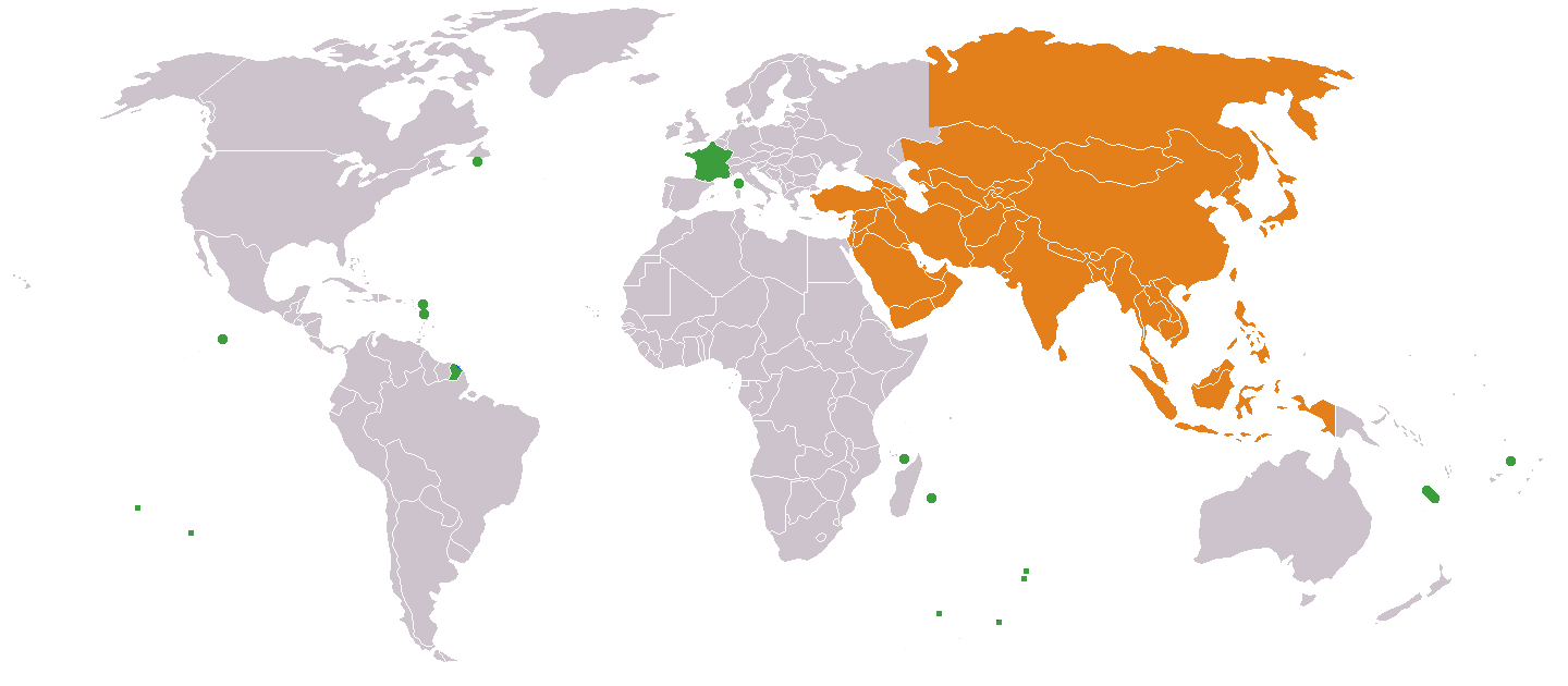 A map showing the location of the French Republic (green) and the continent of Asia (orange)